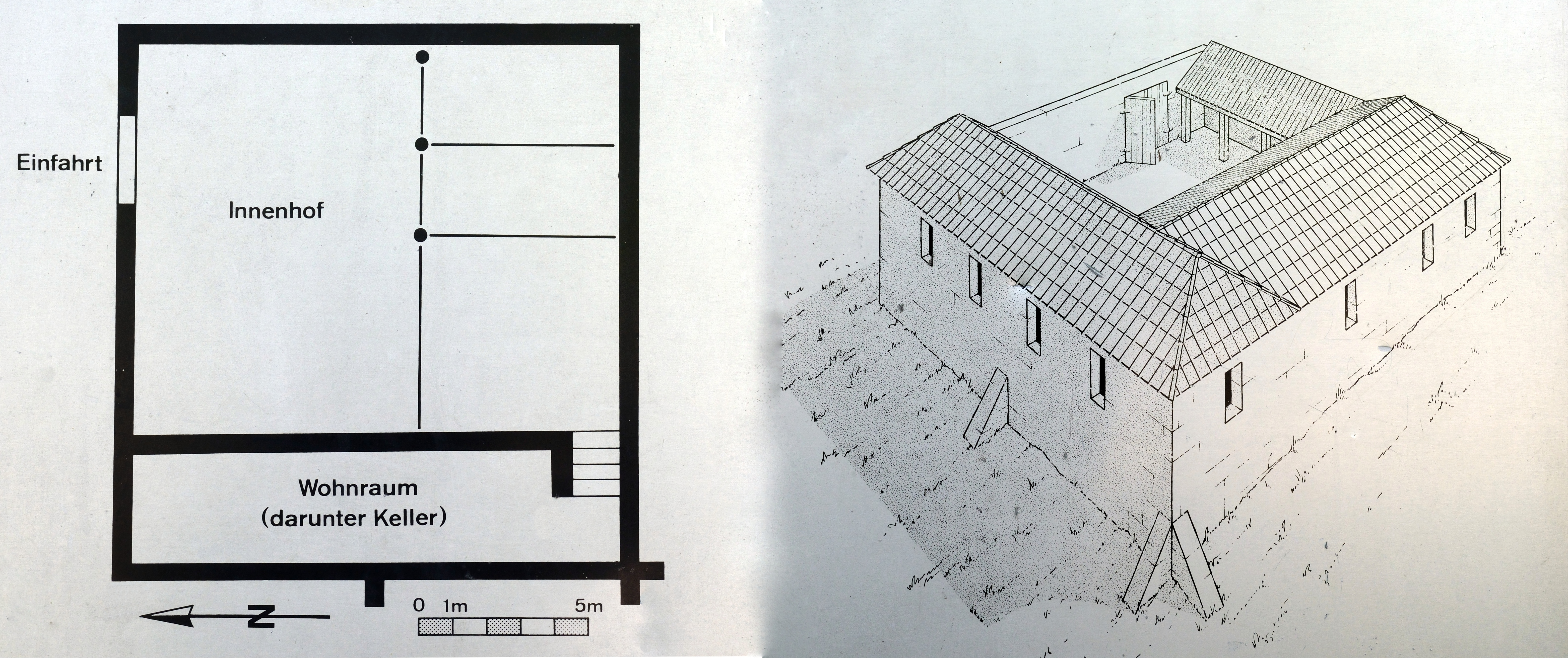 Lörrach-Brombach: Villa rustica